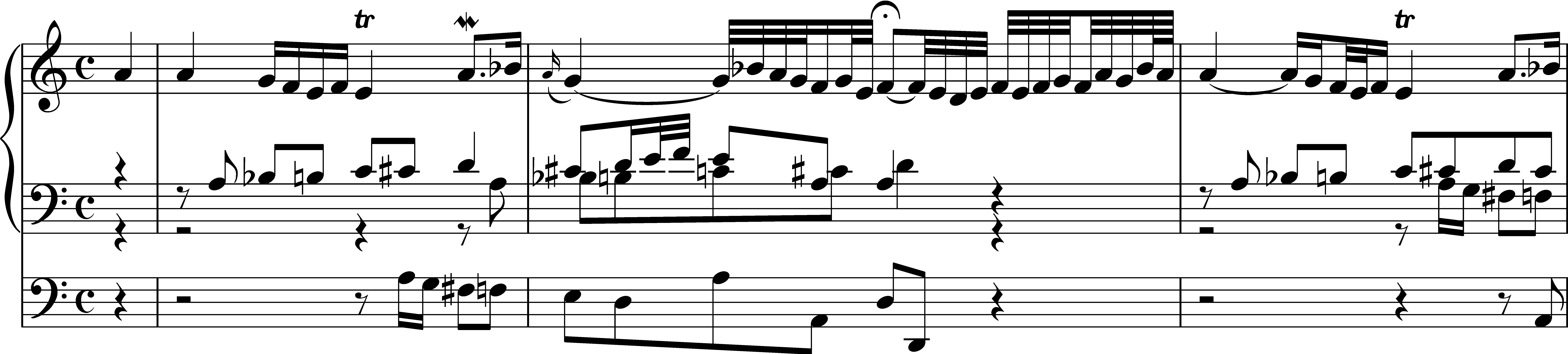 Opening bars of BWV 614 from the Orgelbüchlein.